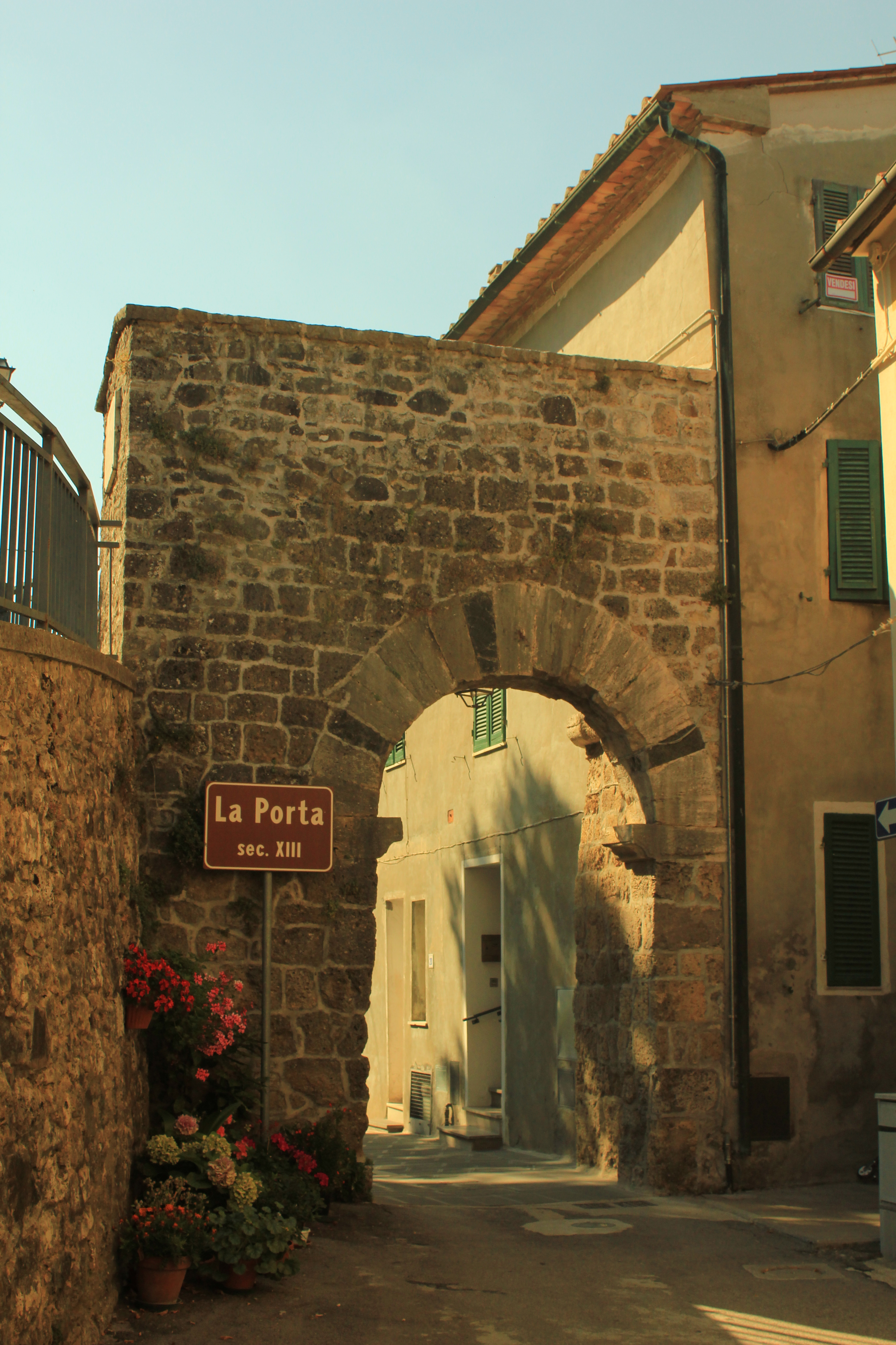 Old gate of Travale, Grosseto.